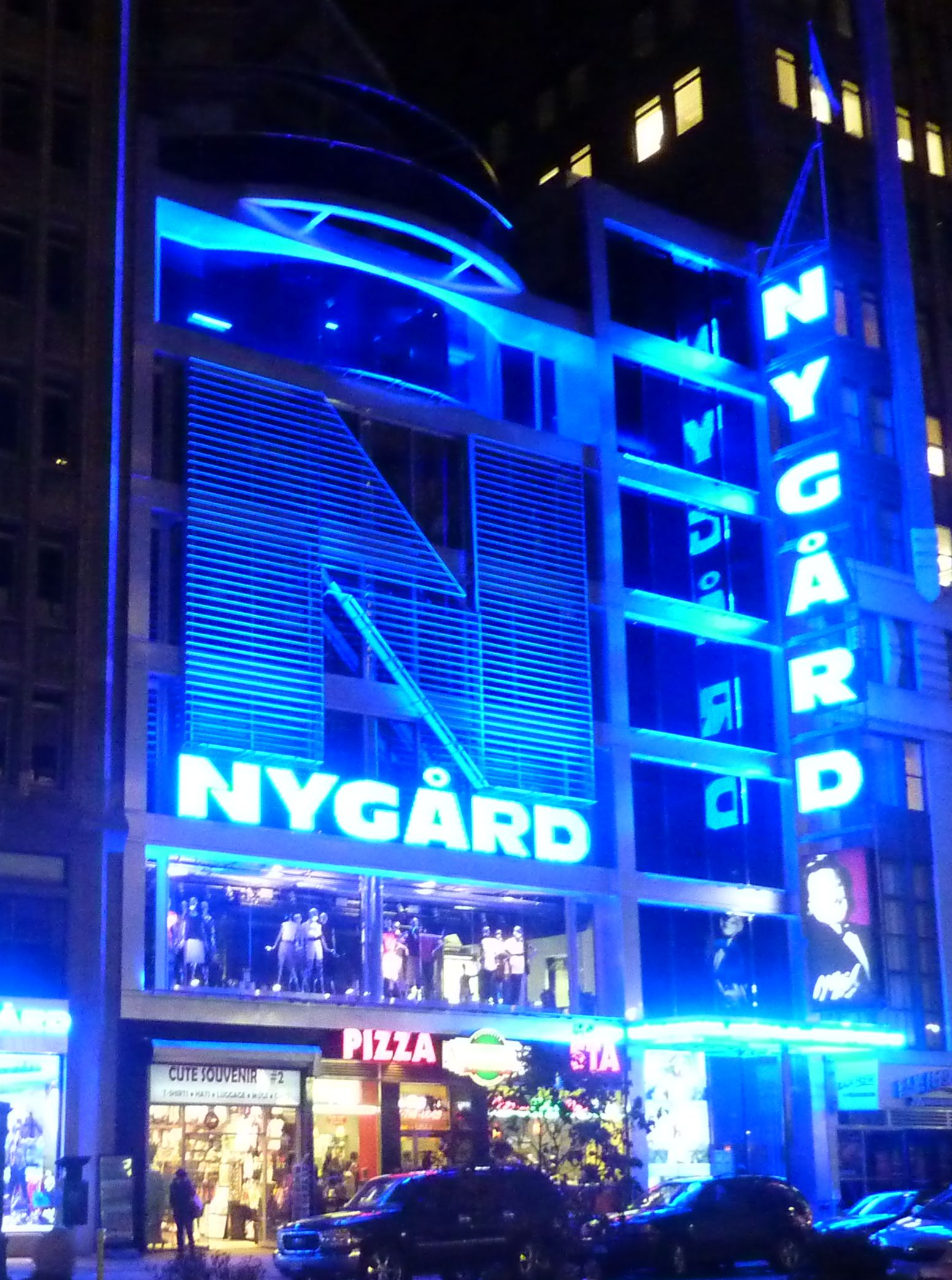 Peter Nygård store in Times Square